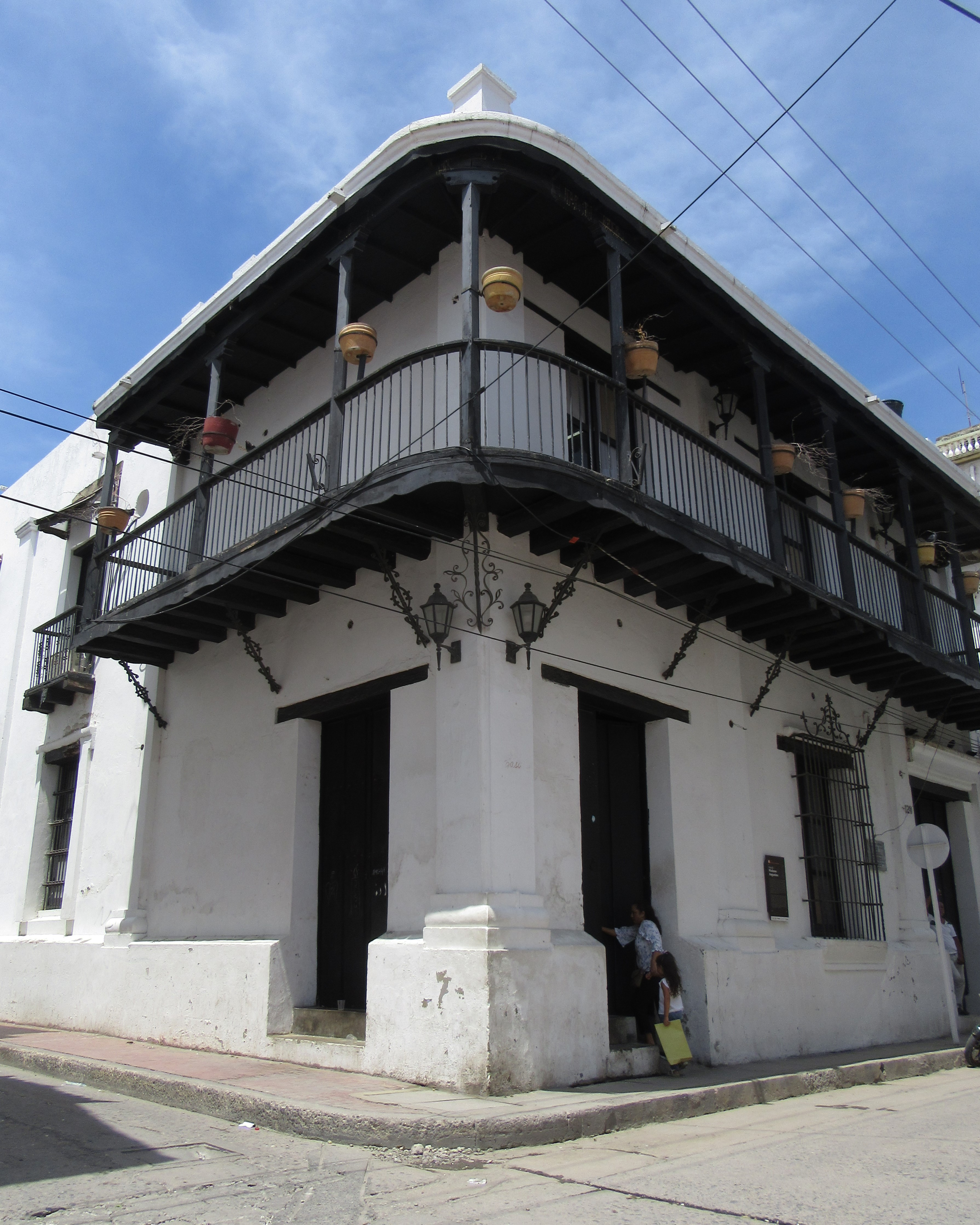 Santa Marta